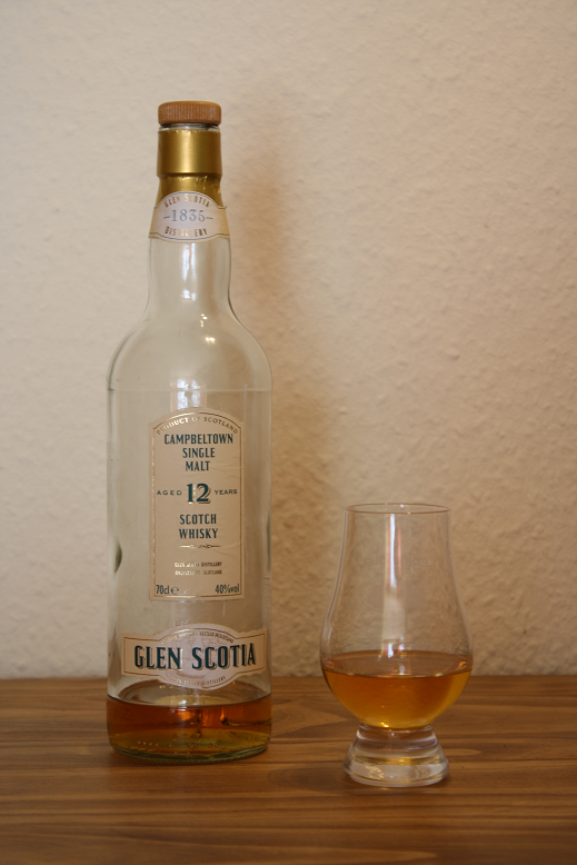 Bottle of 12 year old Glen Scotia with glass